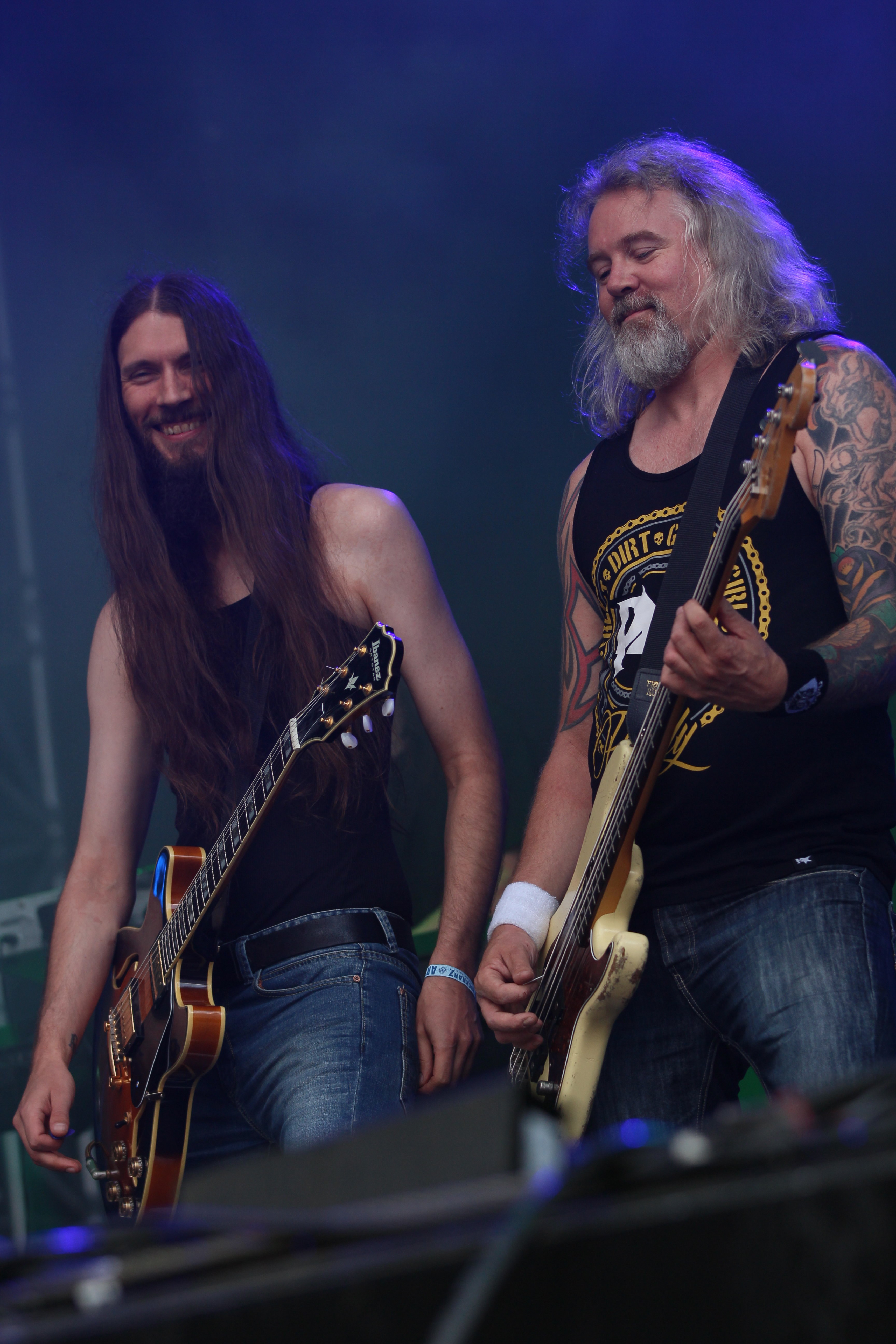 The Swedish gothic metal band Tiamat at the Rockharz Open Air 2014 in Ballenstedt/Germany